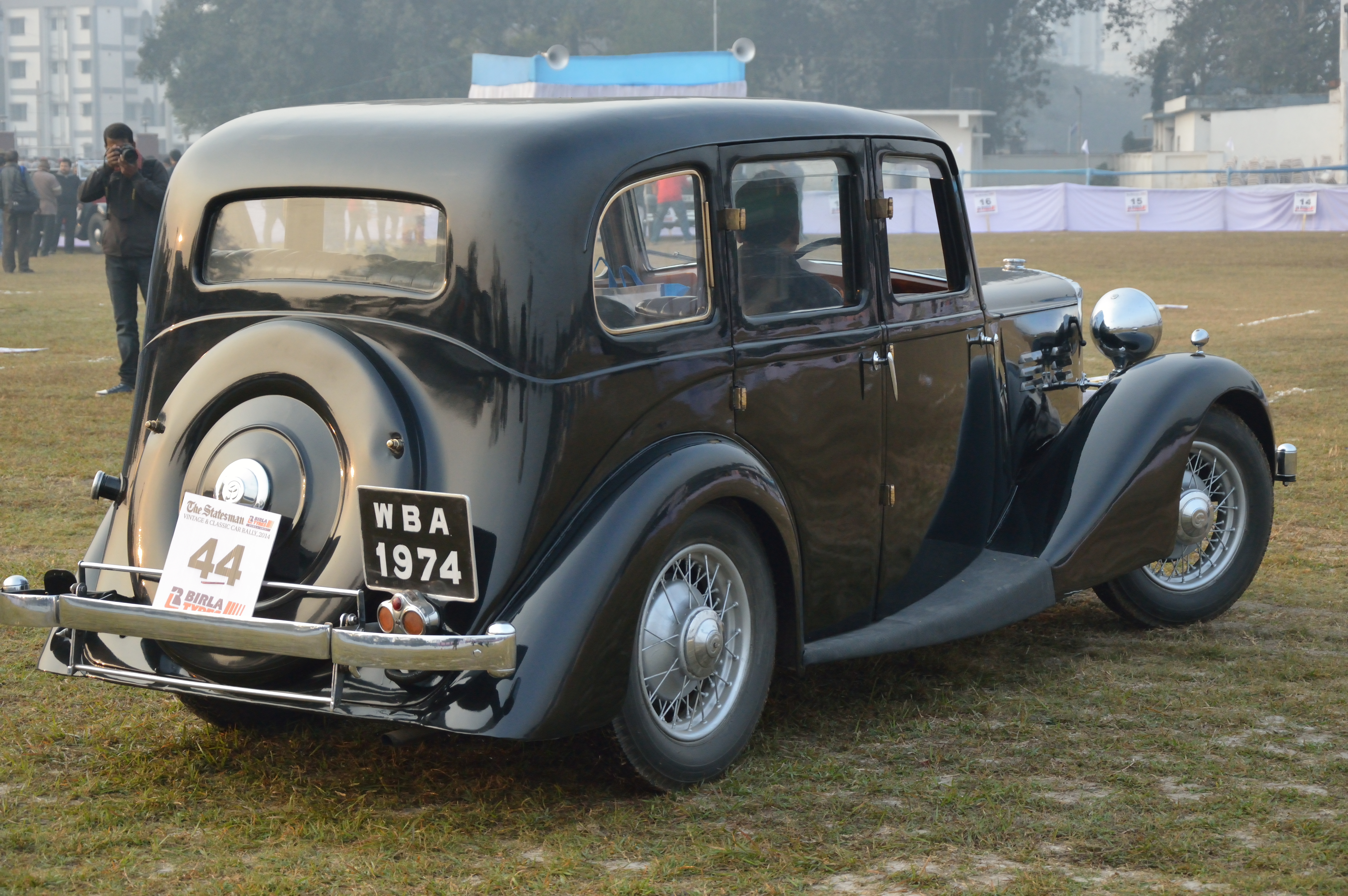 This car was exhibited and took part during ‘The Statesman Vintage & Classic Car Rally 2014’at the Eastern Command Sports Stadium of Fort William, Kolkata. The route was Strand road, Esplanade, Central avenue, Bhupen Bose avenue, Shaymbazaar five points crossing, APC Roy road, Moulali, CIT road, National Medical College, Park Circus seven points, Syed Amir Ali Avenue, Gariahat, Rashbehari Avenue, SP Mukherjee road, Hazra crossing, Ashutosh Mukherjee road, Exide crossing, AJC Bose road again Strand road and back to the ECS stadium. The rally was held at the morning on Sunday, 19 January 2013 at the ECS Stadium, where 175 entrants were registered with cars and bikes manufactured from 1906 to 1971. This one day festival usually takes place on the second Sunday of every January (but this time it is observed on third Sunday) in Kolkata since 1968 with full of period costume and cultural period pieces. This car is owned by Pramod Kumar Mittal and driven by K Haldar.